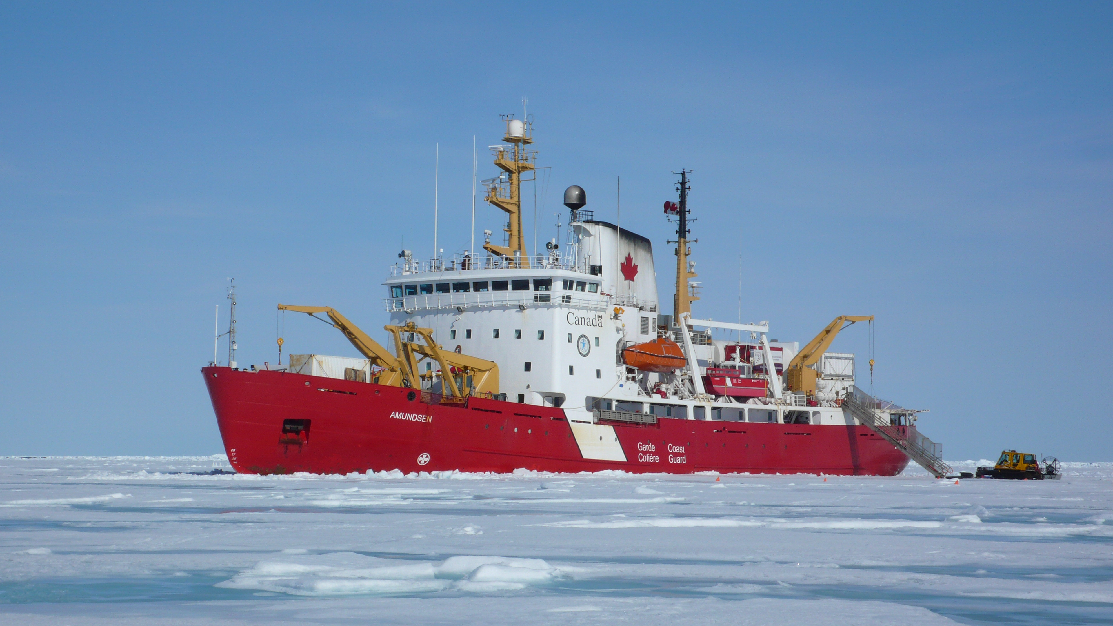 CCGS Amundsen, a Canadian Coast Guard icebreaker.